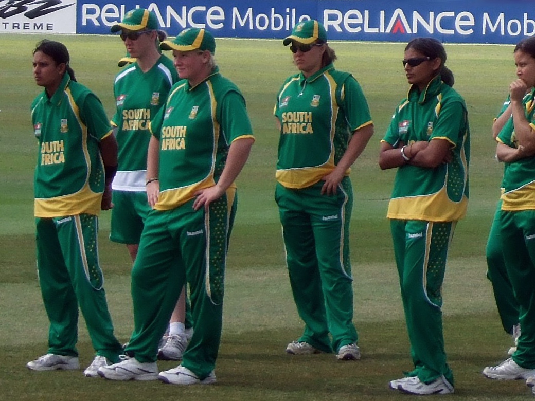 South Africa women's cricket team waiting for presenation at the 2009 ICC Women's World Twenty20